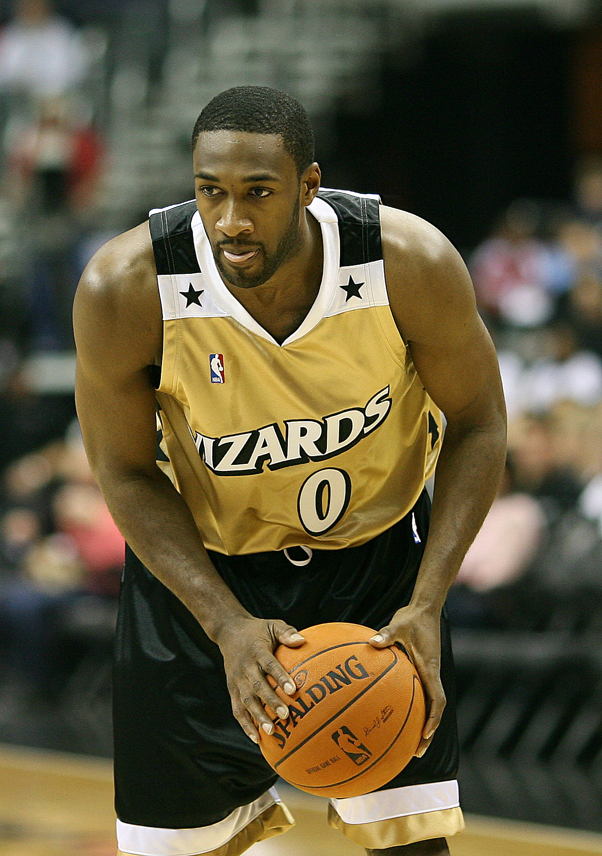 Gilbert Arenas playing with the Washington Wizards